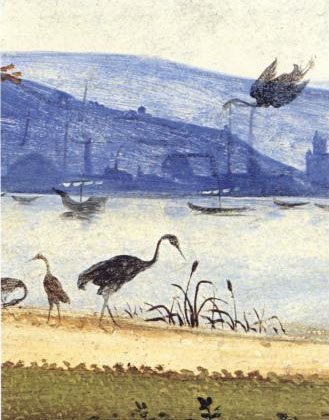 Detail of The Death of Procris